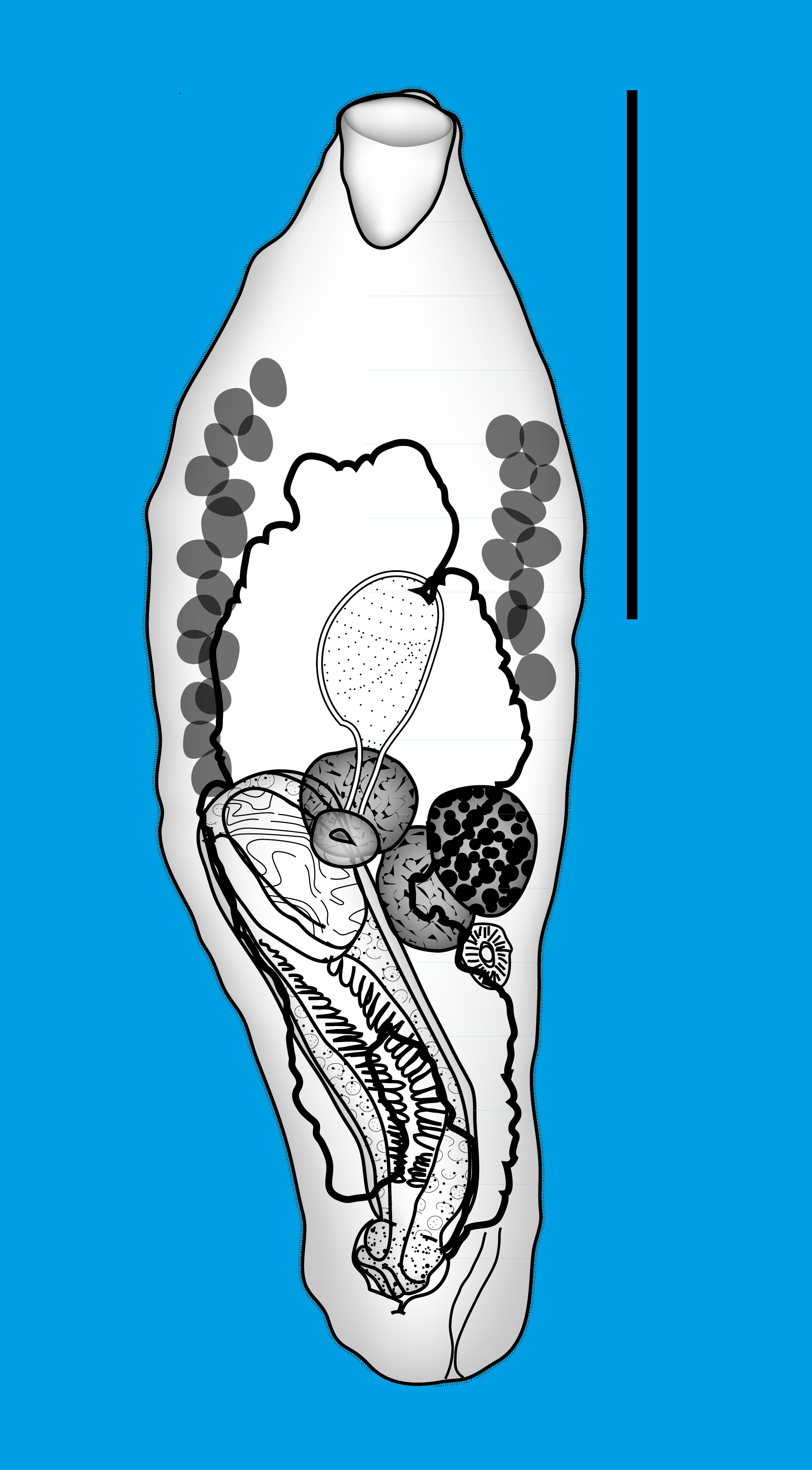 Neidhartia lochepintade Bray & Justine, 2013 (Digenea, Bucephalidae)